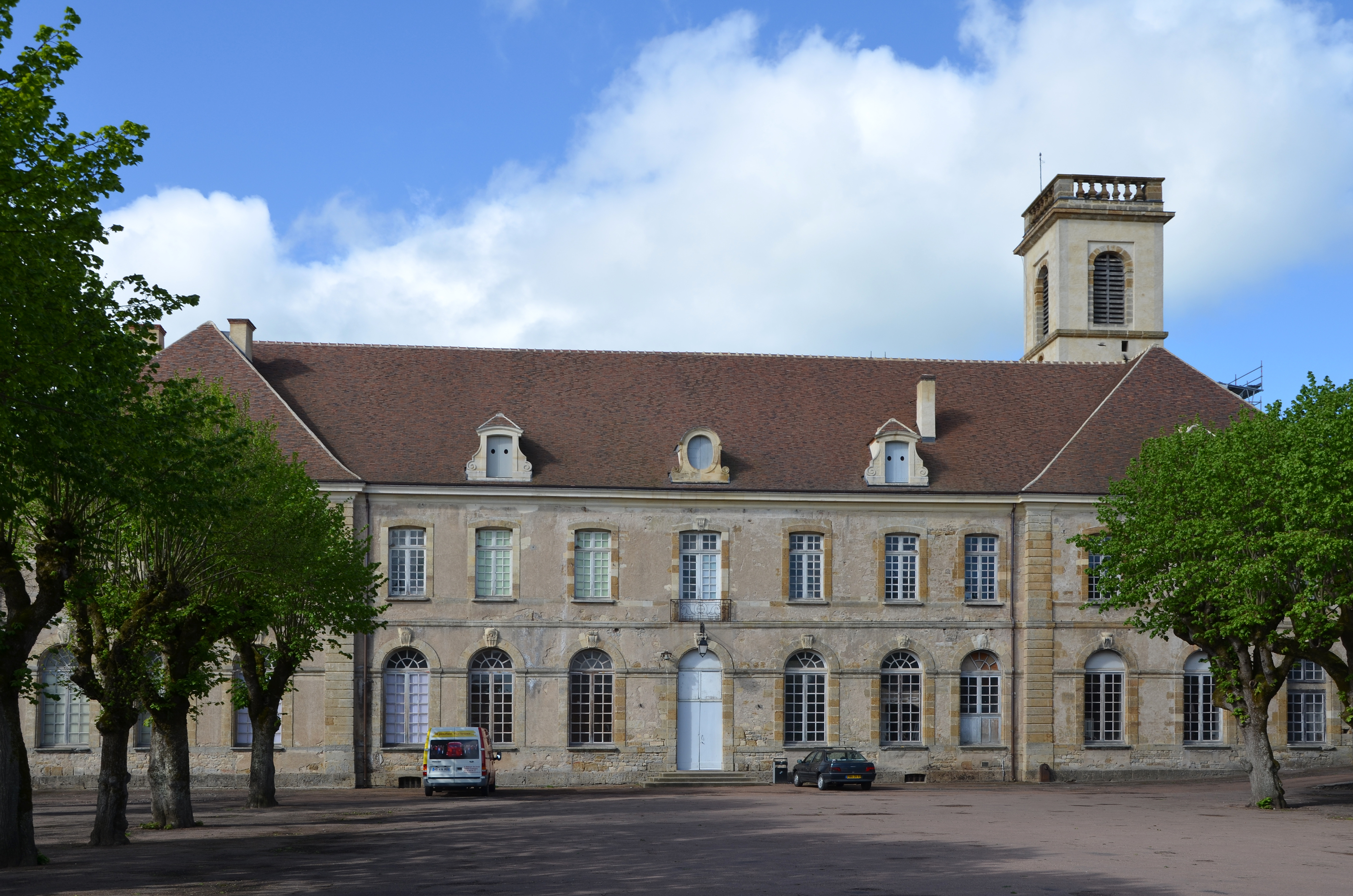 Abbey St Leonard in Corbigny, Nièvre, France